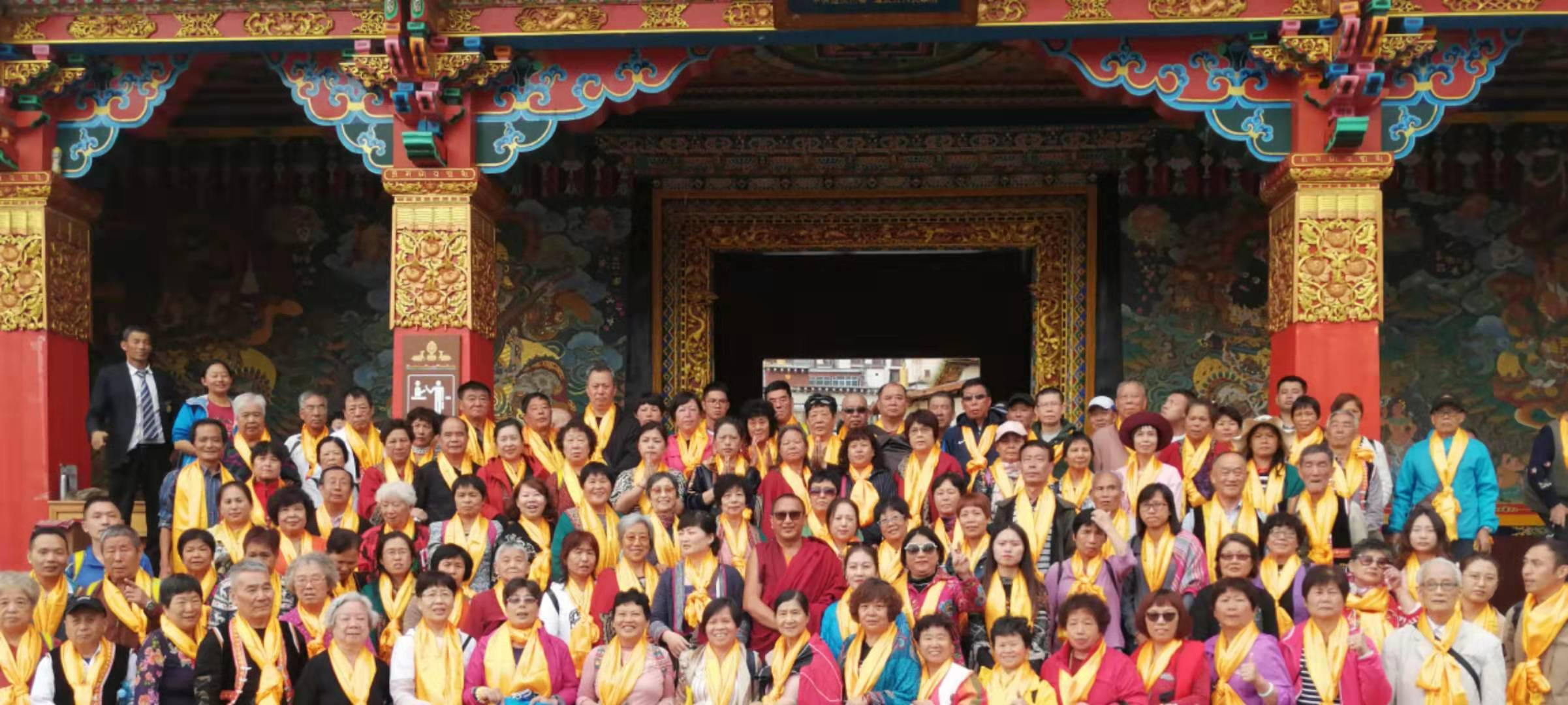 TenzinMasterWithGuests in Ganden Sumtseling Monastery